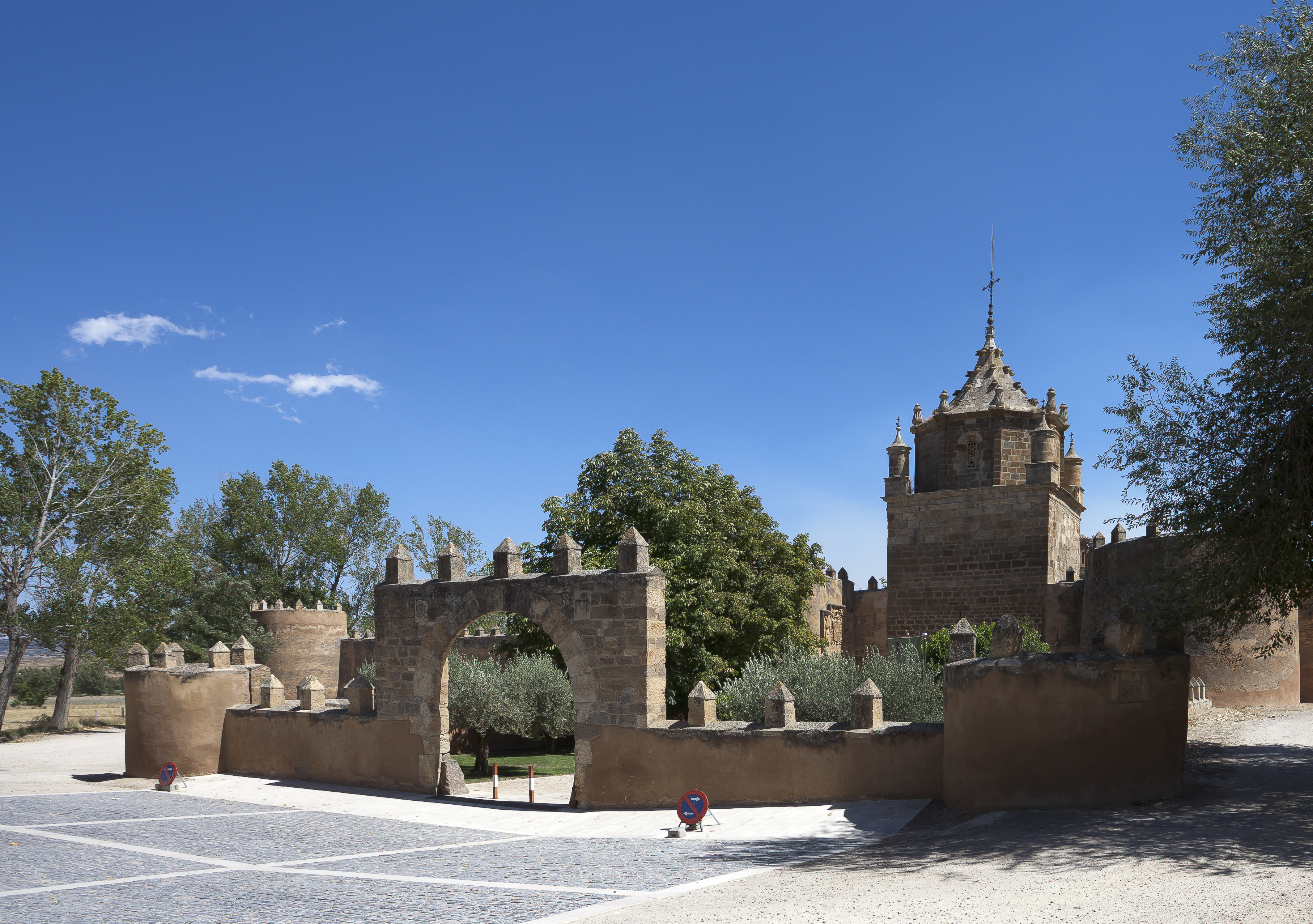 Monastery of Veruela, Vera de Moncayo, Spain